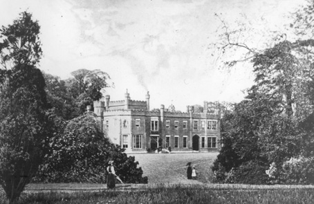 Image obtained from I am unable to find any reference at this page or at any other that mentions the author of the work, but it seems likely that the following tag is appropriate: Otherwise, a fair use rationale would indicate that a small photograph of this drawing depicting the historical appearance of the mansion is reasonable.